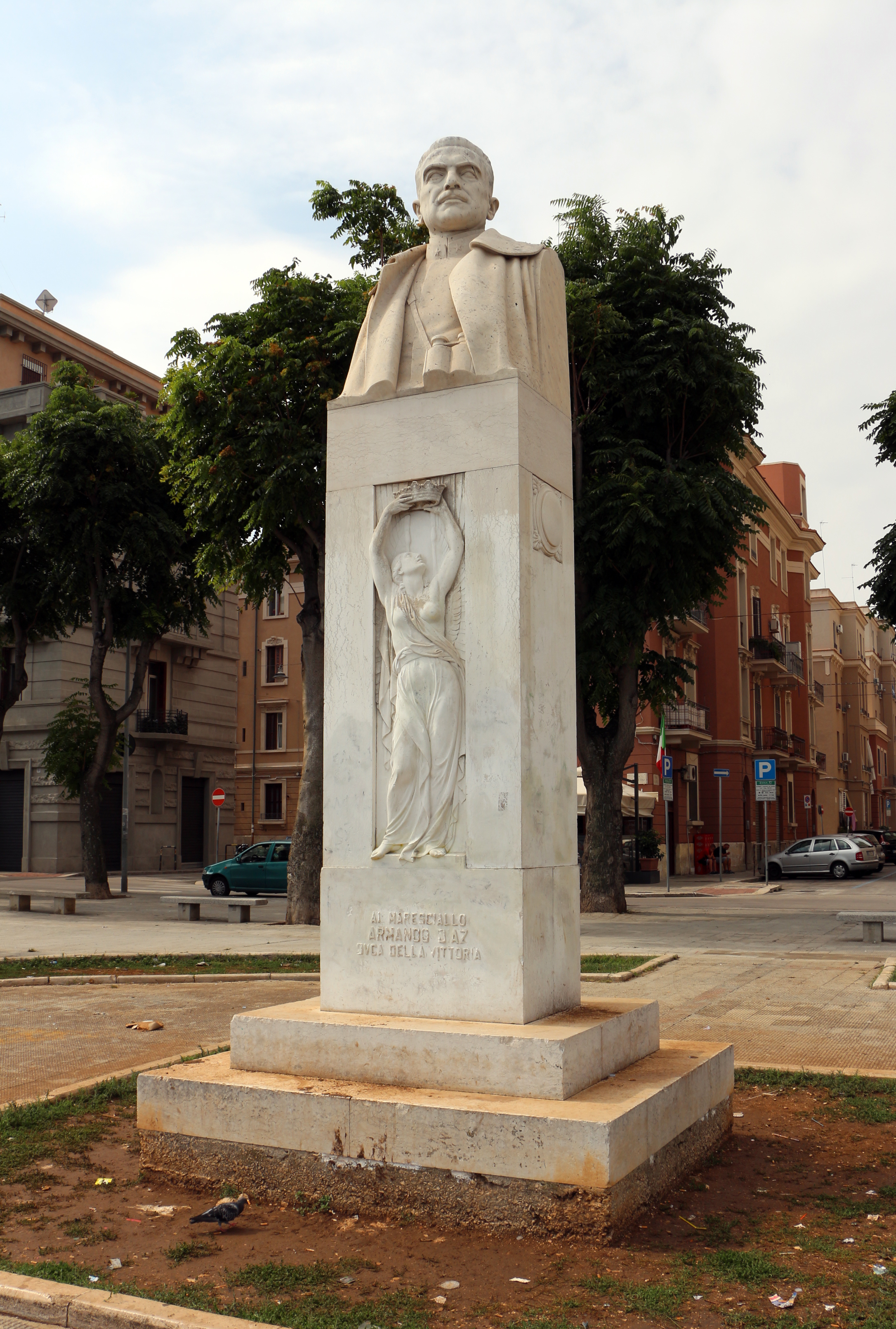 Lungomare (Bari)